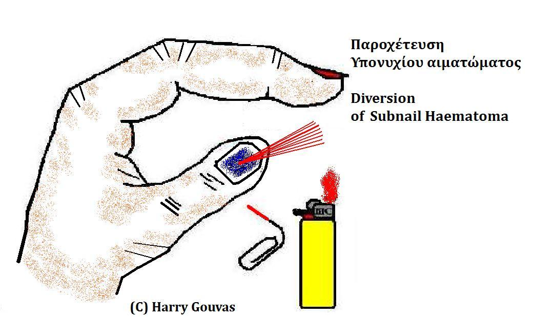 Diversion of subnail haematoma of digits